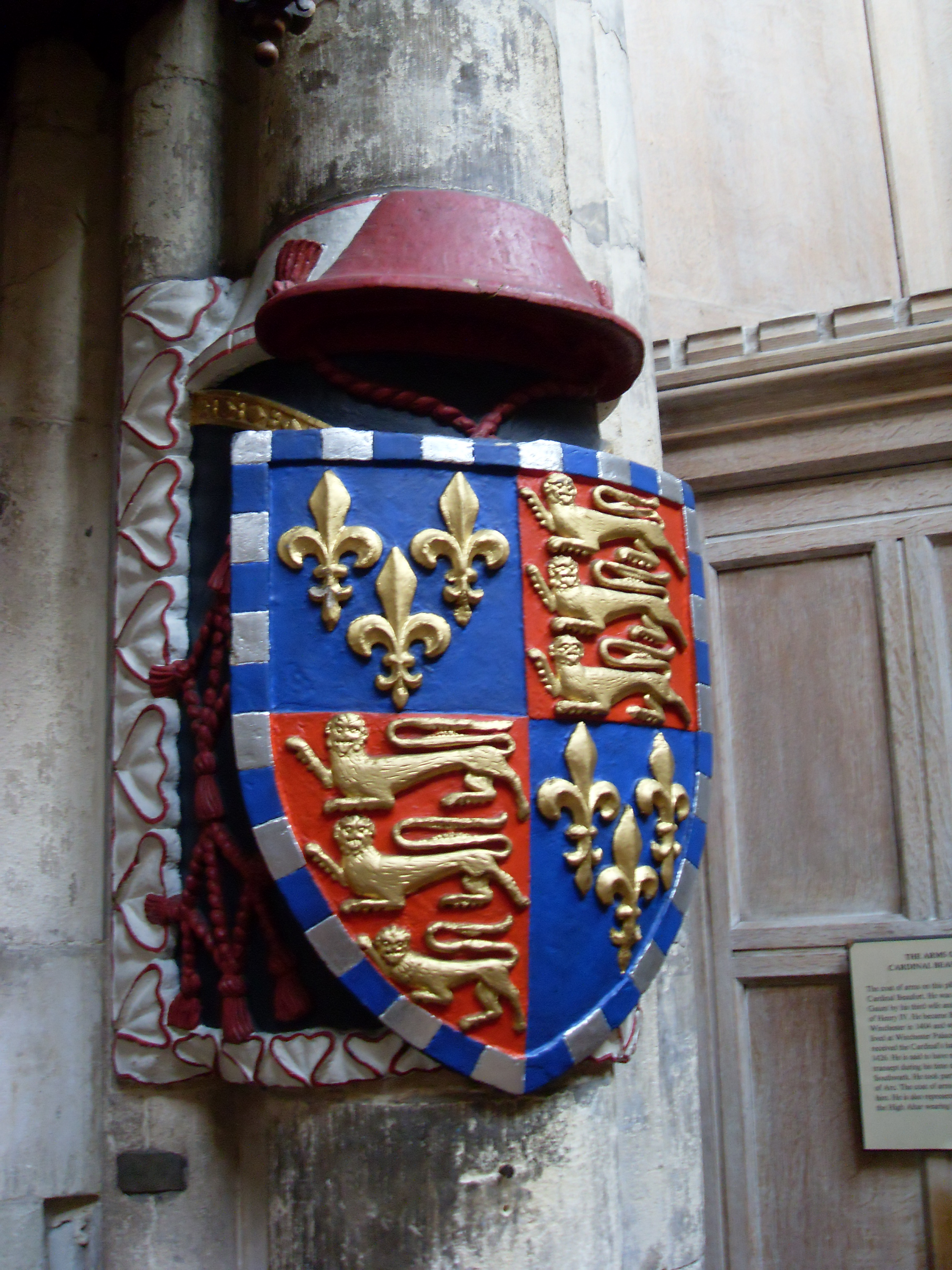 Henry Beaufort (Southwark Cathedral)